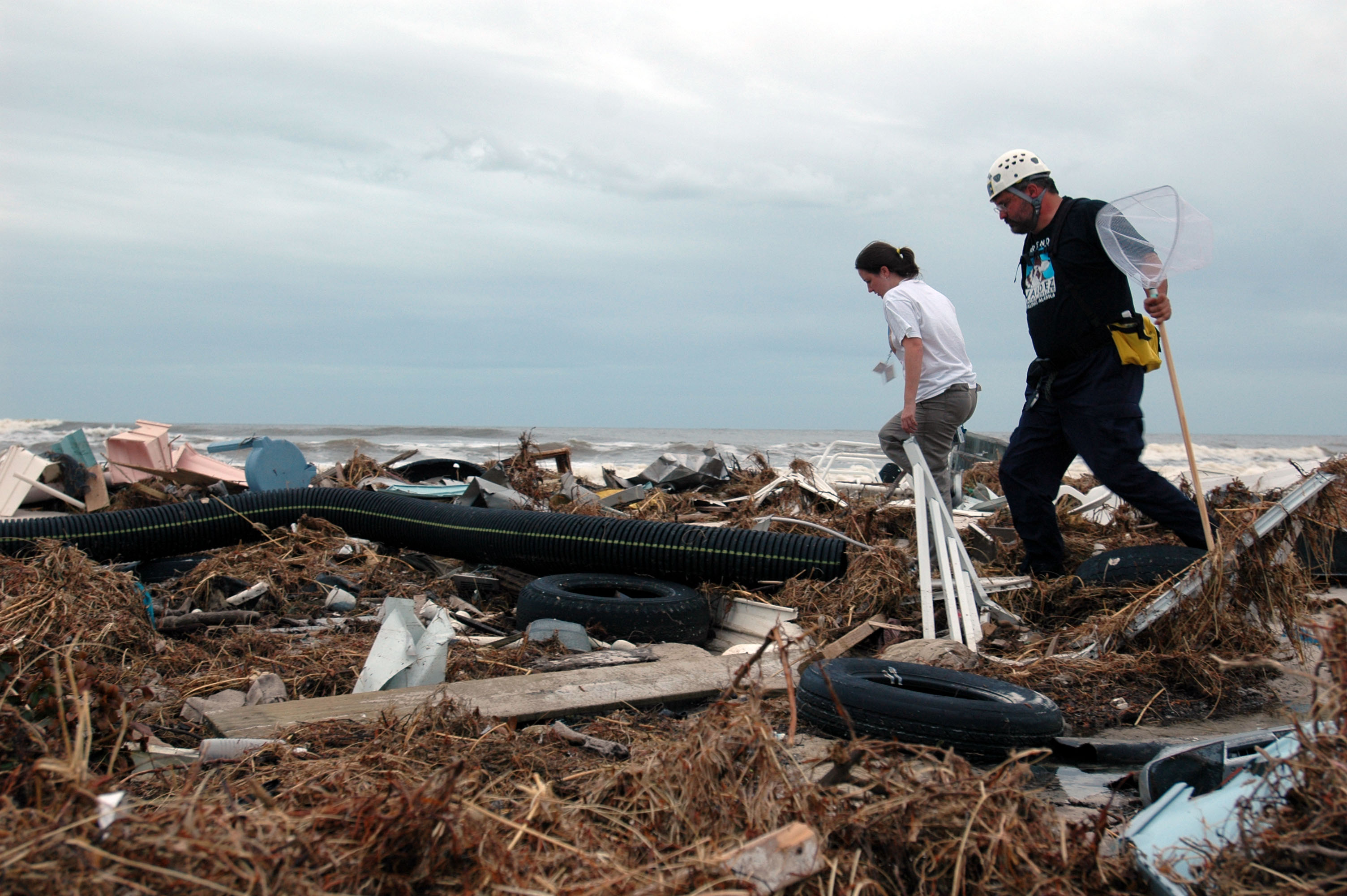 Orange Beach, FL, September 22, 2004--Volunteers from the US Humane Society scour the beach for any animals hurt during Hurricane Ivan. FEMA Photo/Jocelyn Augustino